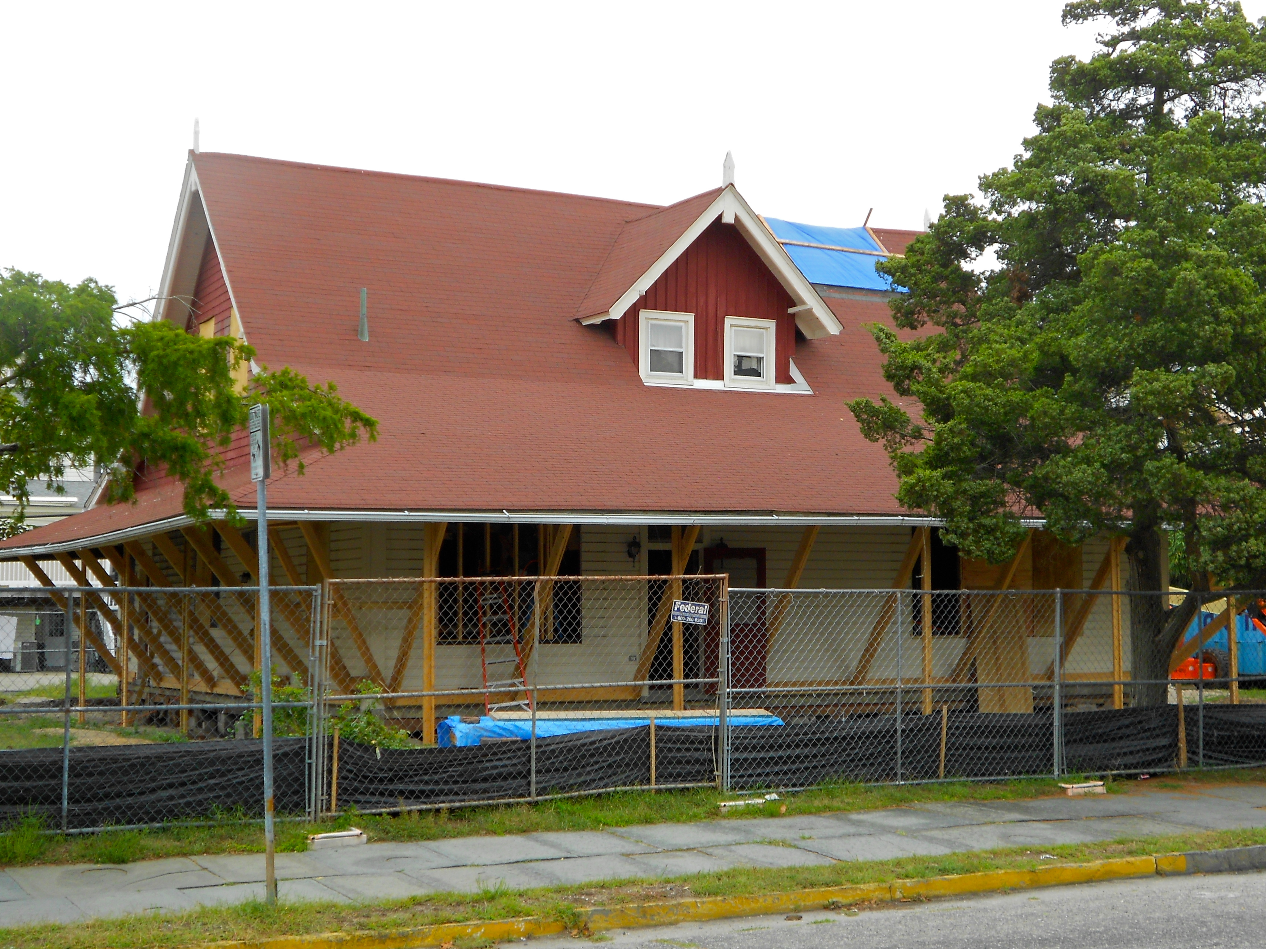 Ocean City Life-Saving Station Listed on the NRHP on June 14, 2013. At 801 4th St., Ocean City, Cape May County, New Jersey. Currently undergoing renovation.